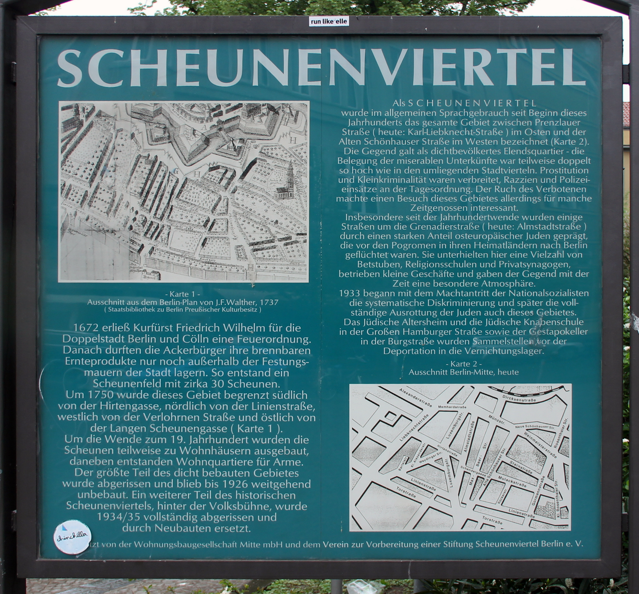 Memorial plaque, Scheunenviertel, Rosa-Luxemburg-Platz, Berlin-Mitte, Germany